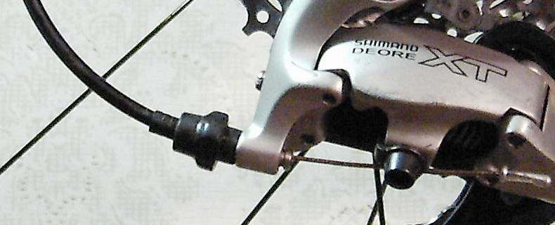 Bowden Cable cropped from File:Shimano xt rear derailleur.jpg on a bicycle.